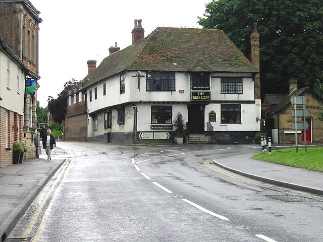 The Red Lion Inn On the corner of Canterbury Road, High Street and Adisham Road the Inn is dated 1286 and was used in the 1944 classic film by Michael Powell and Emeric Pressburger 'A Canterbury Tale'. Appearing as 'The Hand of Glory' the pub was used for interior shots including the stained glass windows.